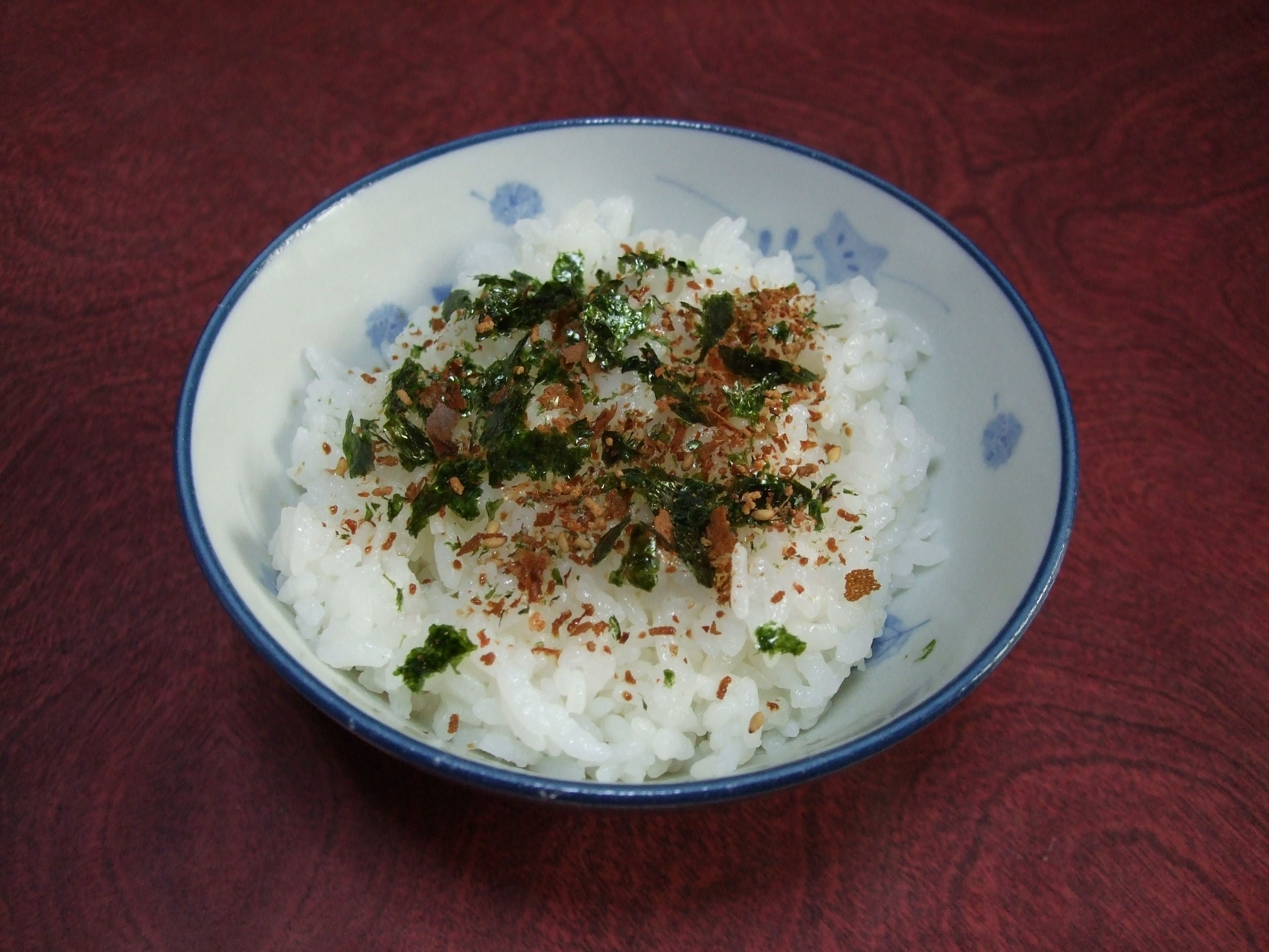 Nagatanien furikake "Otonano-Furikake"